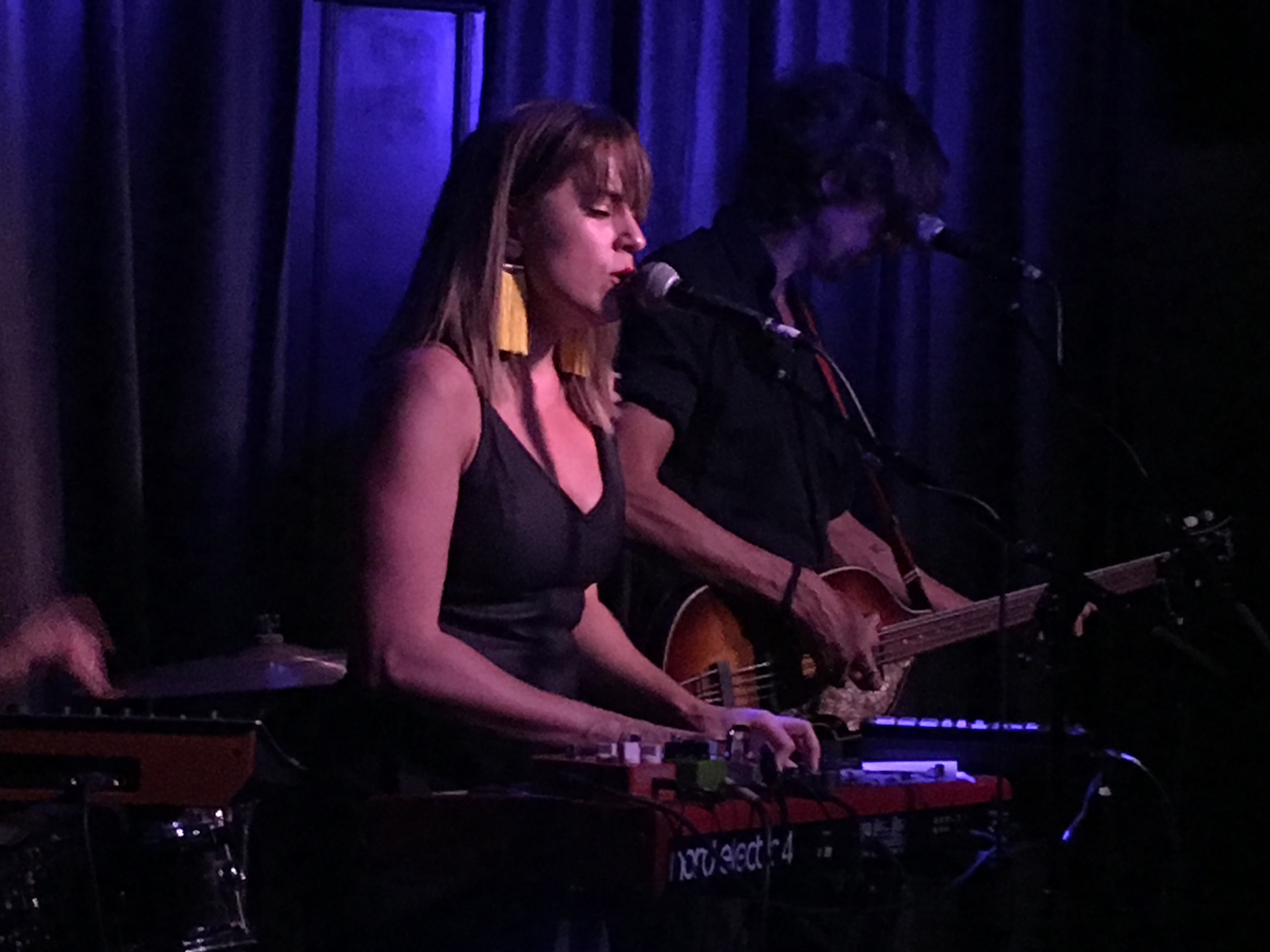 Singer-songwriter and keyboardist Rachel Eckroth performing live in Los Angeles, CA in July 2019.